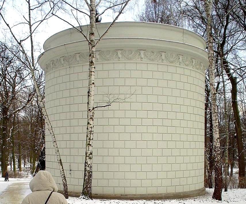 King`s Lazienki in Warsaw - reservoir